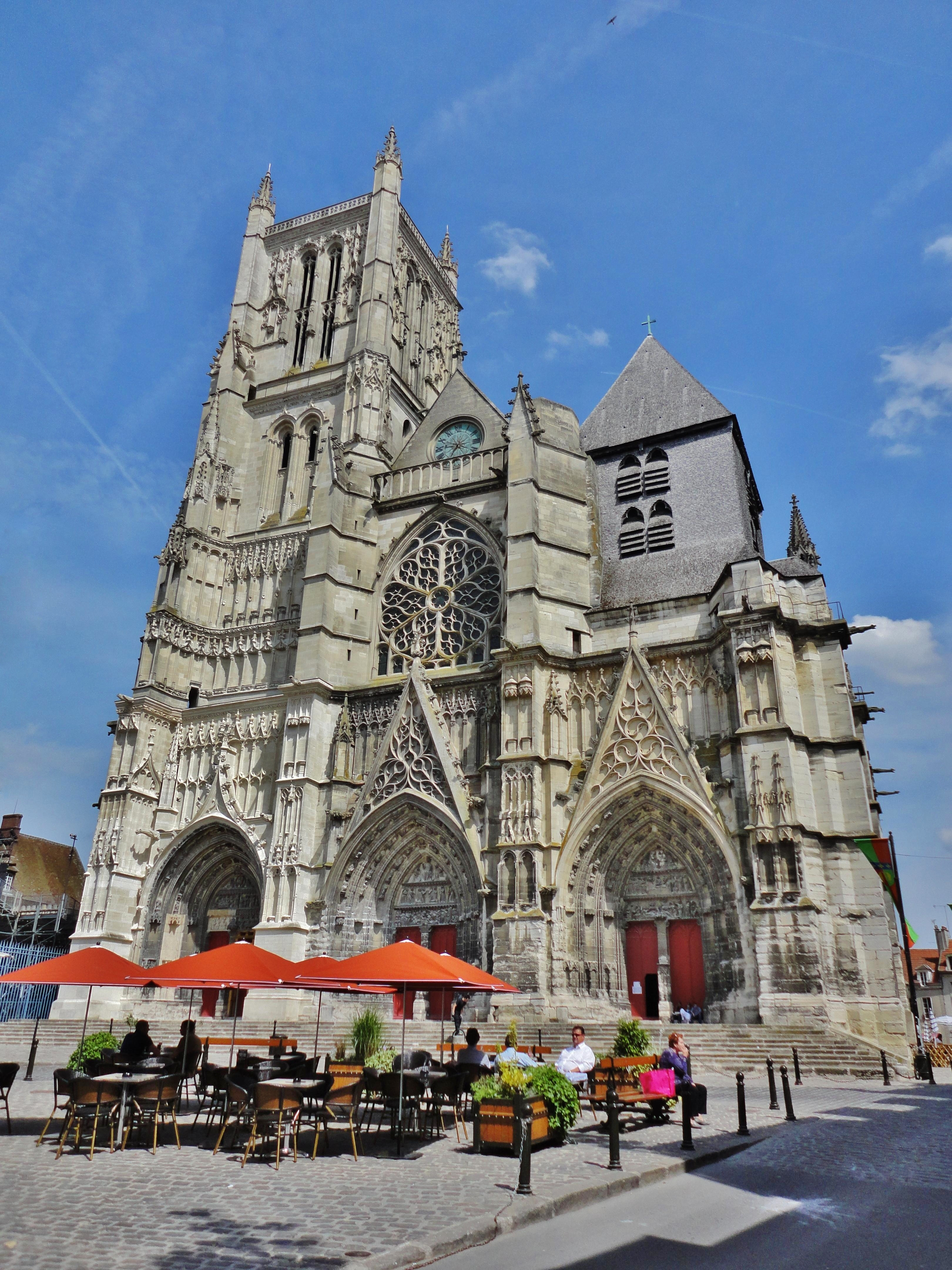 Cathédrale Saint-Etienne de Meaux.